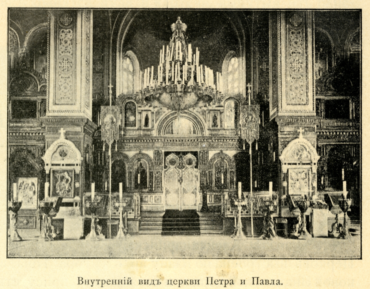 Peterhof (Russia), St. Peter and Paul Cathedral